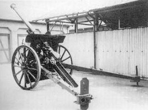 Type 90 75mm Field Gun Introduced Year : 1932 Caliber : 75 mm Barrel Length : 2.883 m (L38.4) EL Angle of Fire : -8 to +43 Degrees AZ Angle of Fire : 50 Degrees Shell Weight : 6.56 Kg Muzzle Velocity : 683 m/sec Weight : 1.4 ton, 1.6 ton (Motorized Model) Range : 13,890 m Production Qty : 786 Type 90 was based on the Schneider field gun. Type 90 is the only Japanese artillery that was applied with the muzzle brake. A variant of Type 90 is a motorized model which has the suspensions and rubber tires. Type 90 was used as field artillery until the end of WWII. And Type 90 often fired at Allied tanks during the Pacific War, because its high speed shell was effective against tanks. The gun of Type 3 Medium Tank was converted from Type 90 field gun.